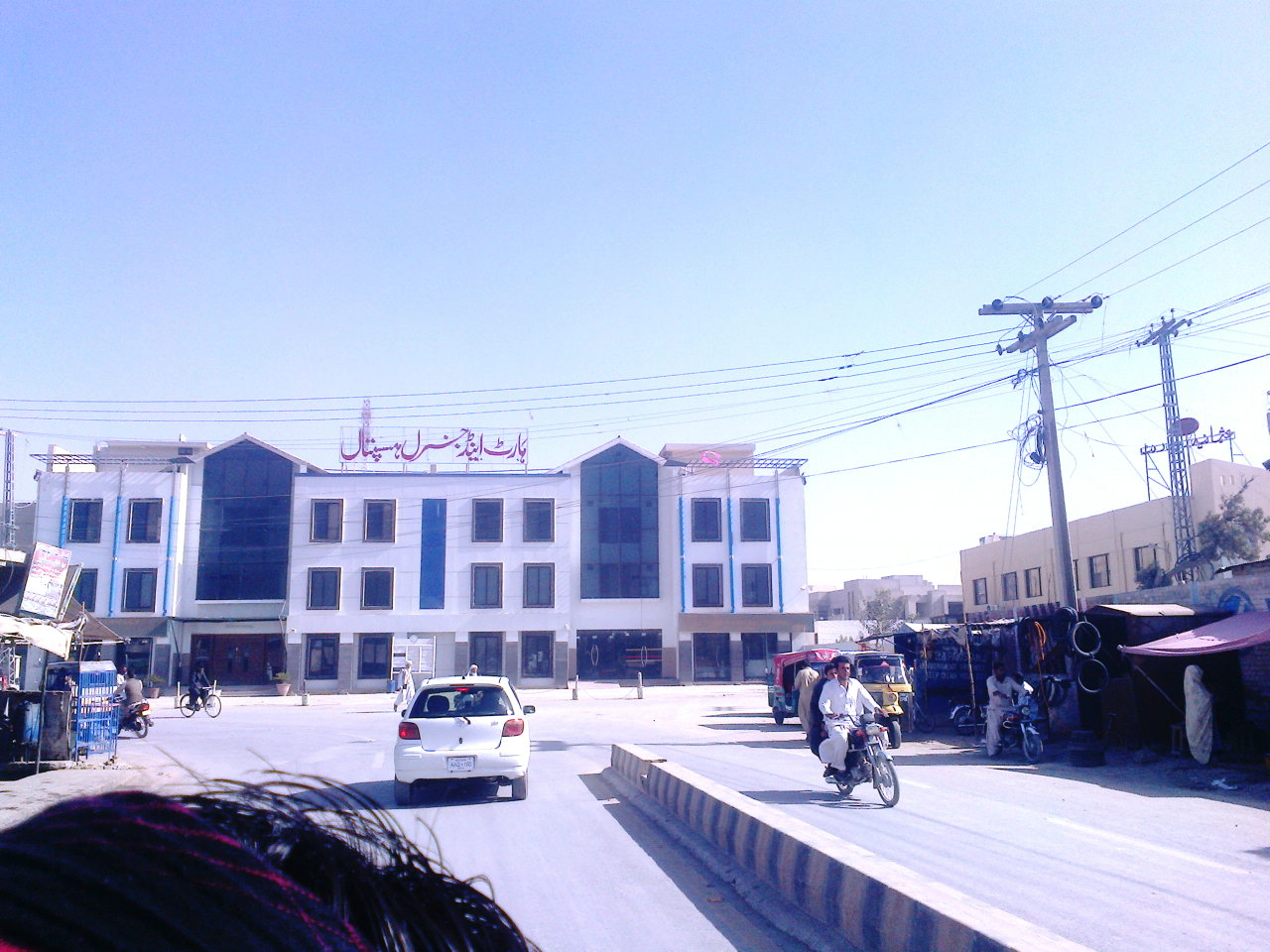 HEART AND GERNAL HOSPITAL QUETTA PAKISTAN